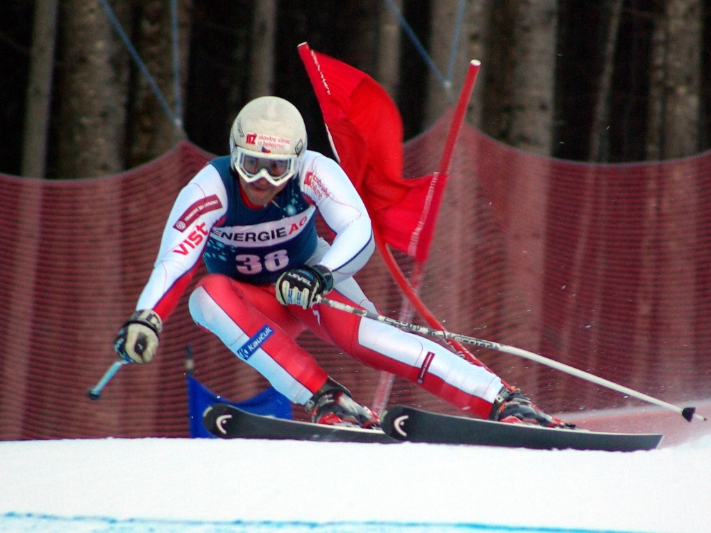 Czech alpine skier Petr Zahrobsky during the European Cup Giant Slalom in Hinterstoder, Austria on January 11, 2008.